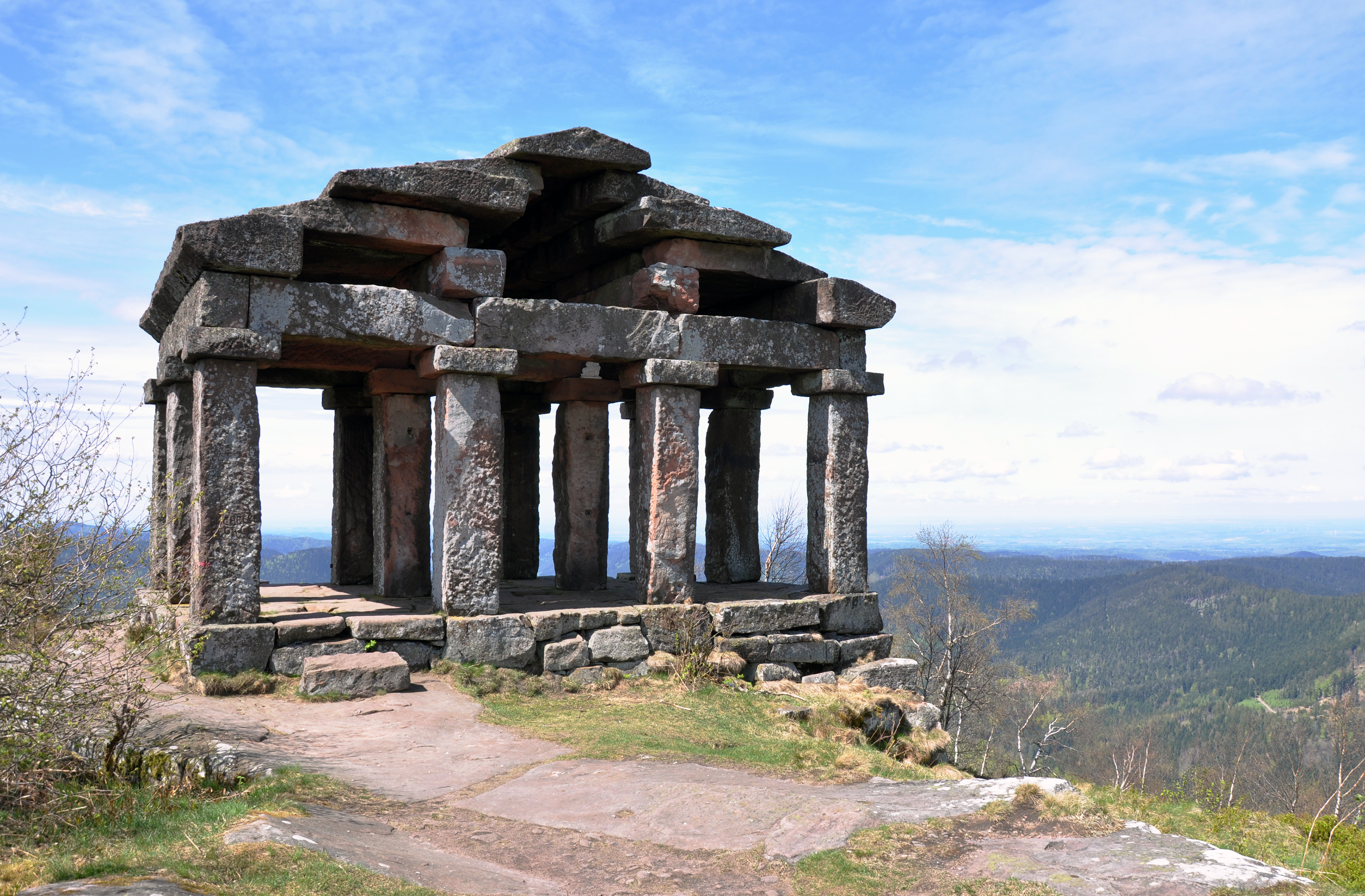 Gallo-Roman sanctuary of Teutatès (Mercury) at the top of the Donon (alt. 2009 meters); temple-shape museum now empty, built in 1869.